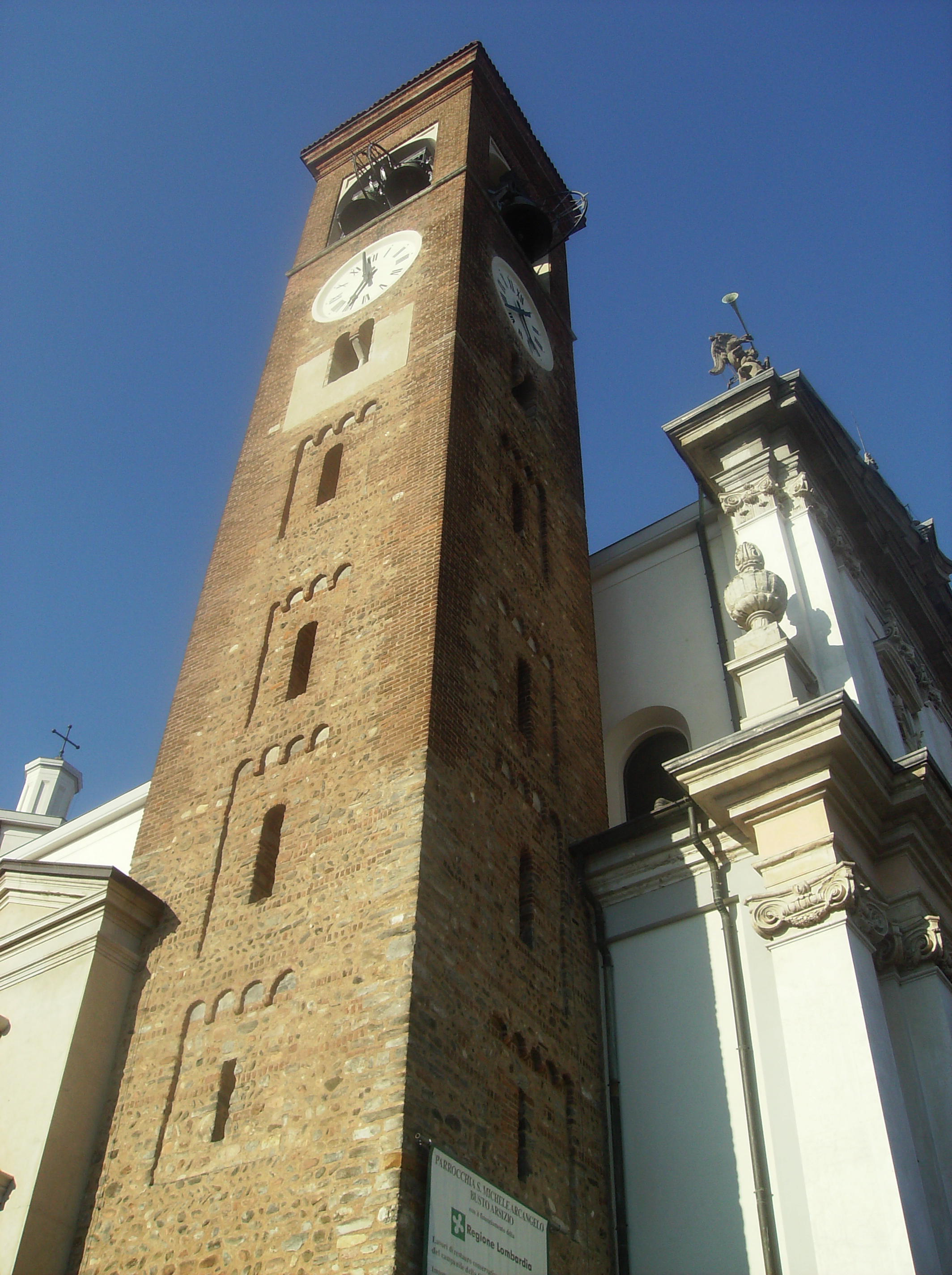 Bell Tower of San Michele ( Lombardy) - Busto Arsizio